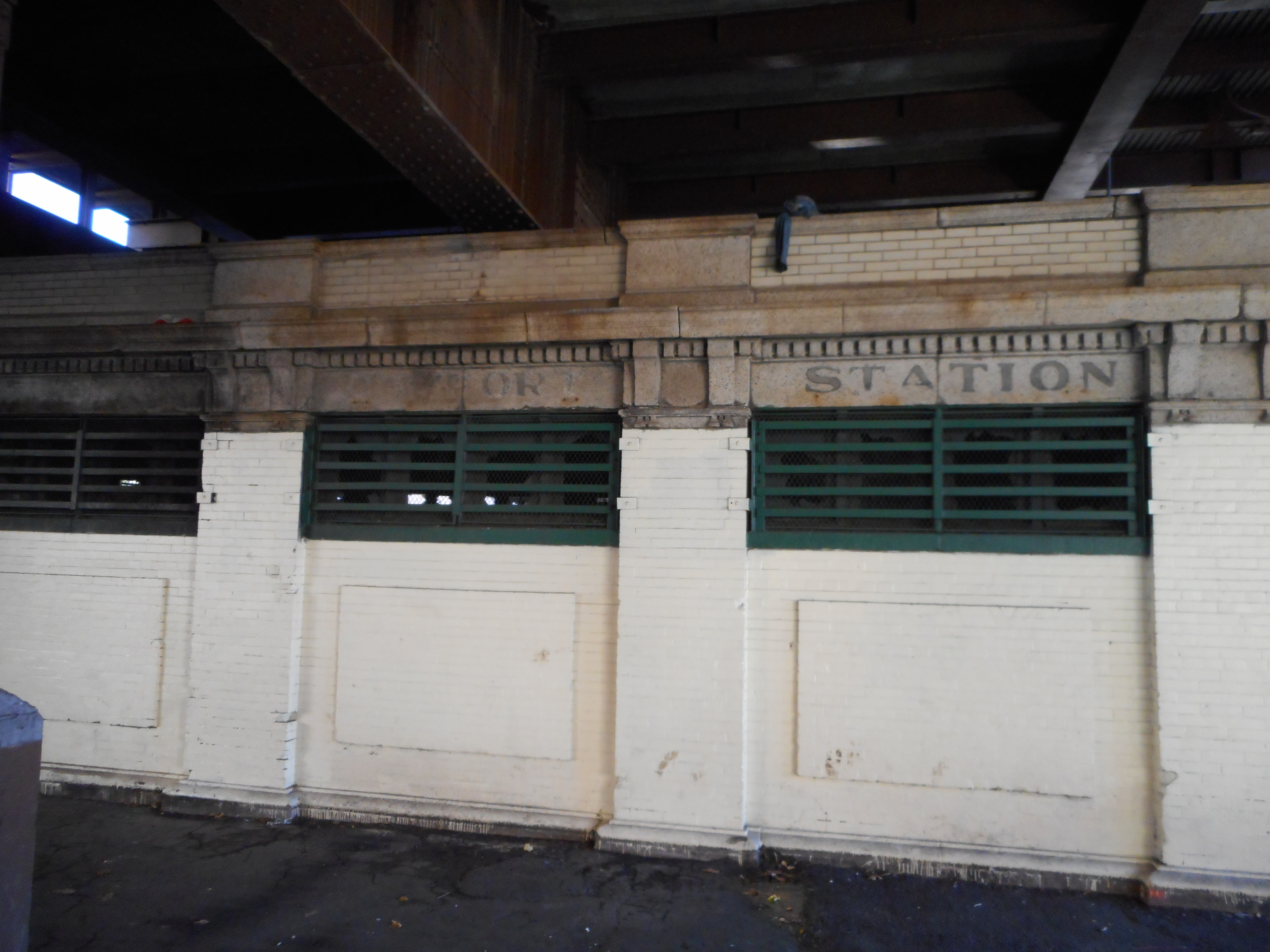 The former comfort station across the street from Harlem-125th Street (Metro-North station), originally built by New York Central Railroad.